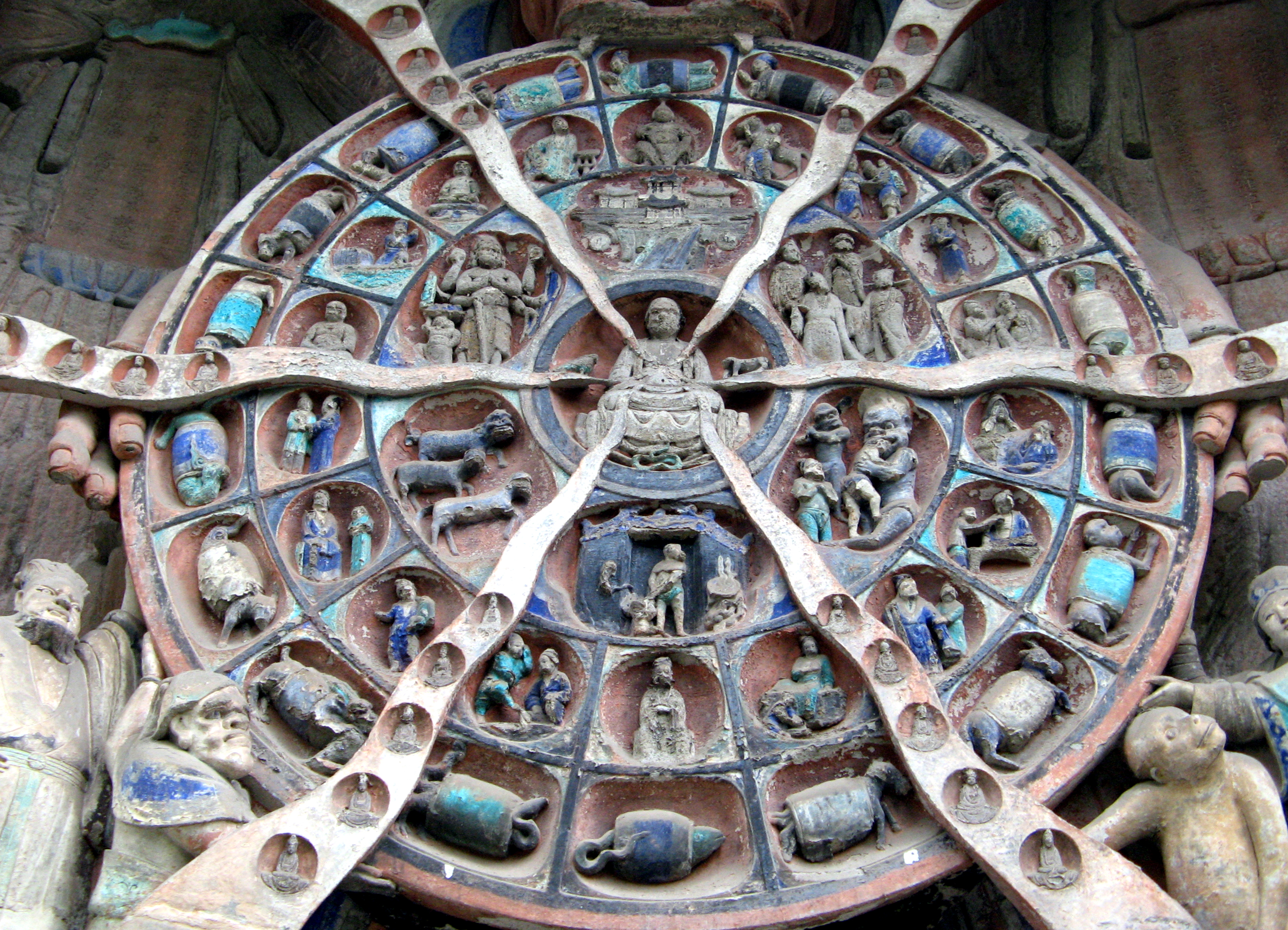 Wheel of Reincarnation. Baodingshan, Dazu According to scholar Angela Falco Howard, the meditating figure at the center of the wheel is Zhao Zhifeng, creator of the Baodingshan site. The rays, emanating from Zhao, partition the innermost ring of the wheel into the traditional six realms of reincarnation. Proceeding clockwise from the top, these are the realms of gods, men, hungry ghosts, hell, animals, and demigods (asuras). The middle ring illustrates the chain of causes, technically called "links of dependent origination," in Buddhist philosophy: ignorance, sickness, death, old age, desire, etc. The outer ring illustrates various reincarnations of men and animals.